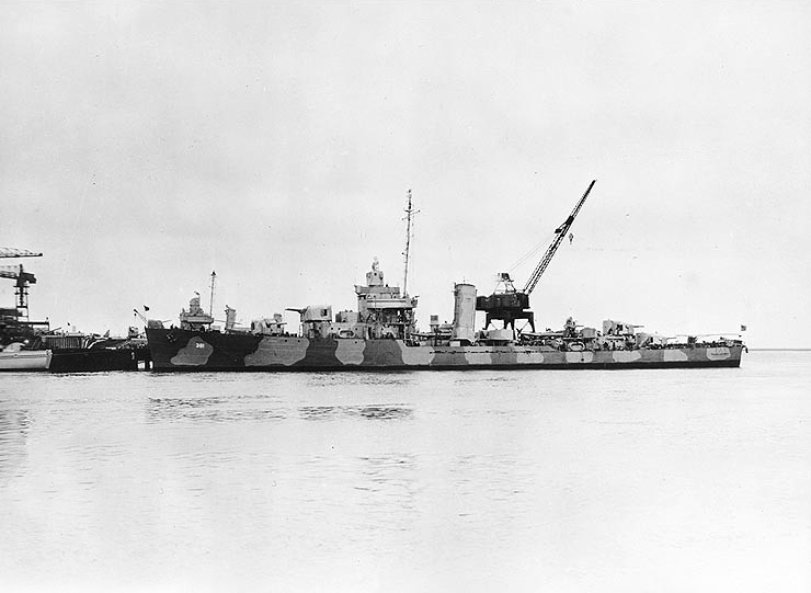 The U.S. Navy destroyer USS Somers (DD-381) at the Charleston Naval Shipyard, South Carolina (USA), on 16 February 1942. She is wearing Measure 12 (modified) camouflage.